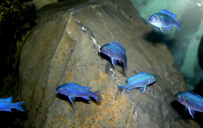 little gems Maylandia callainos